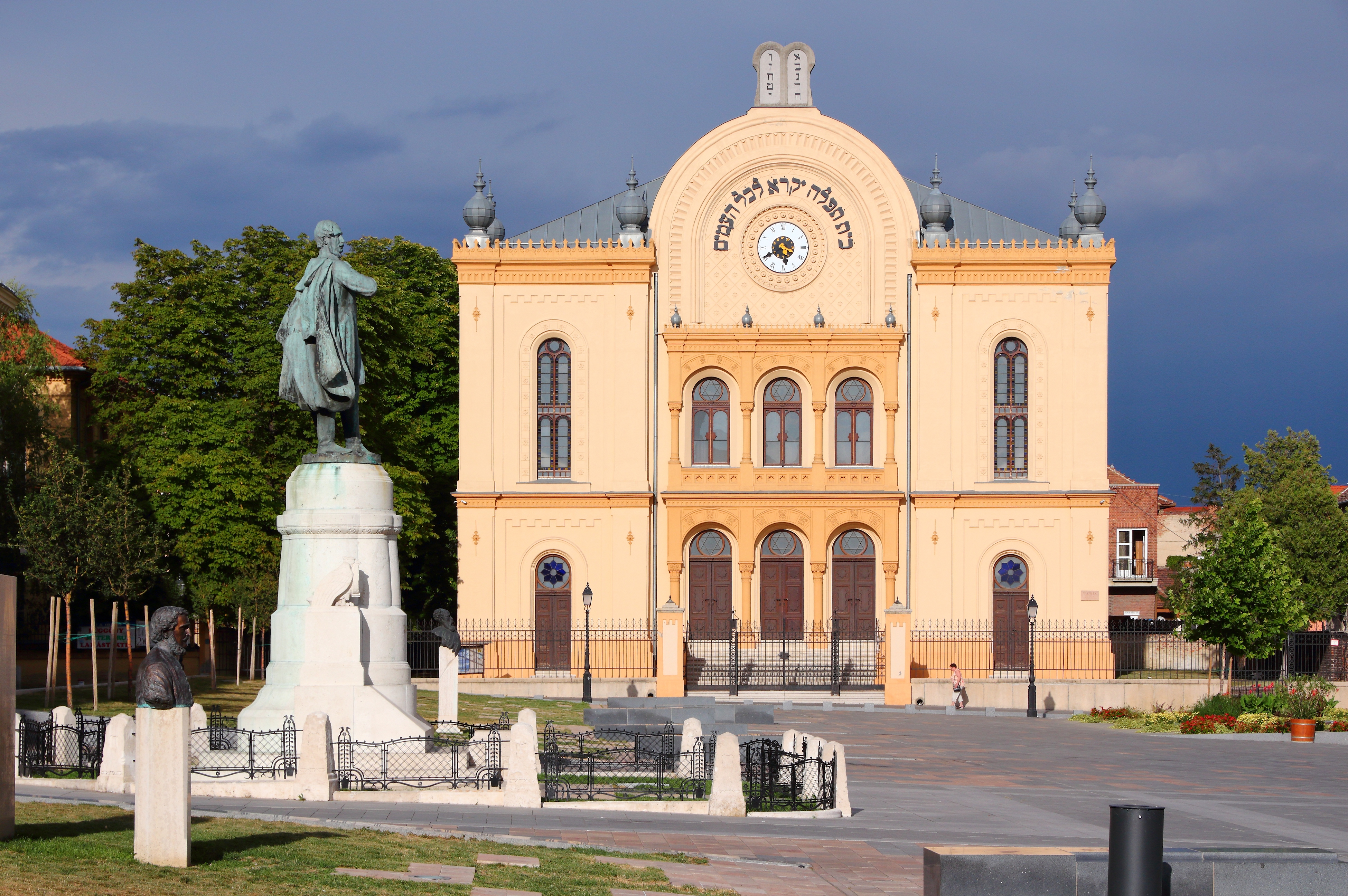 Monument of Lajos Kossuth and Great Synagogue of Pécs, Hungary.